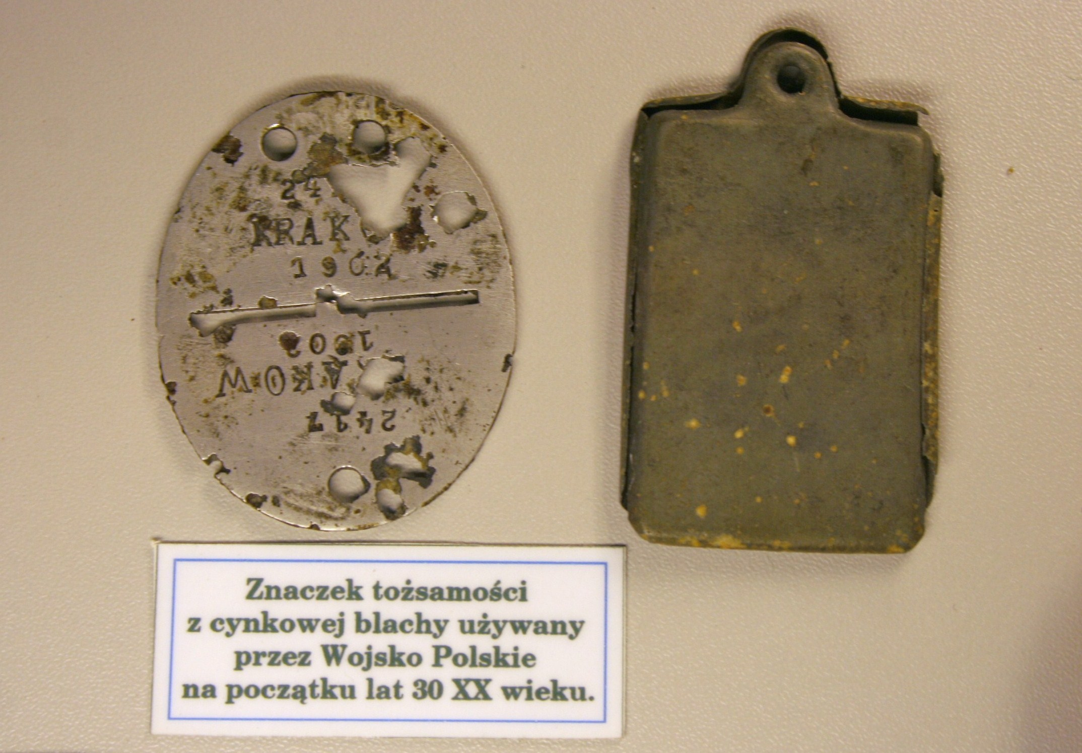 Collections of Museum of Coastal Defence - Polish "dog tag" from the 1930s.